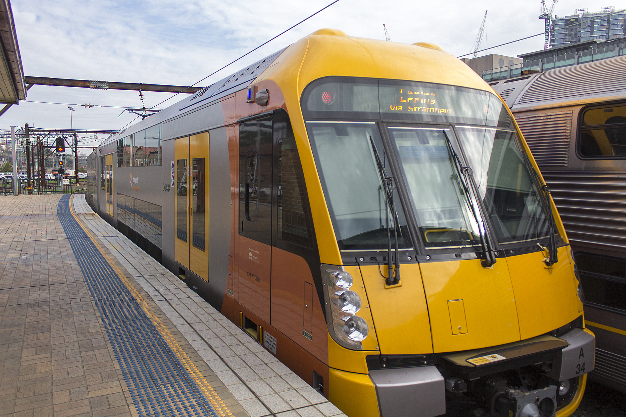 Sydney Trains A set (Waratah) departing Central Station in Sydney.